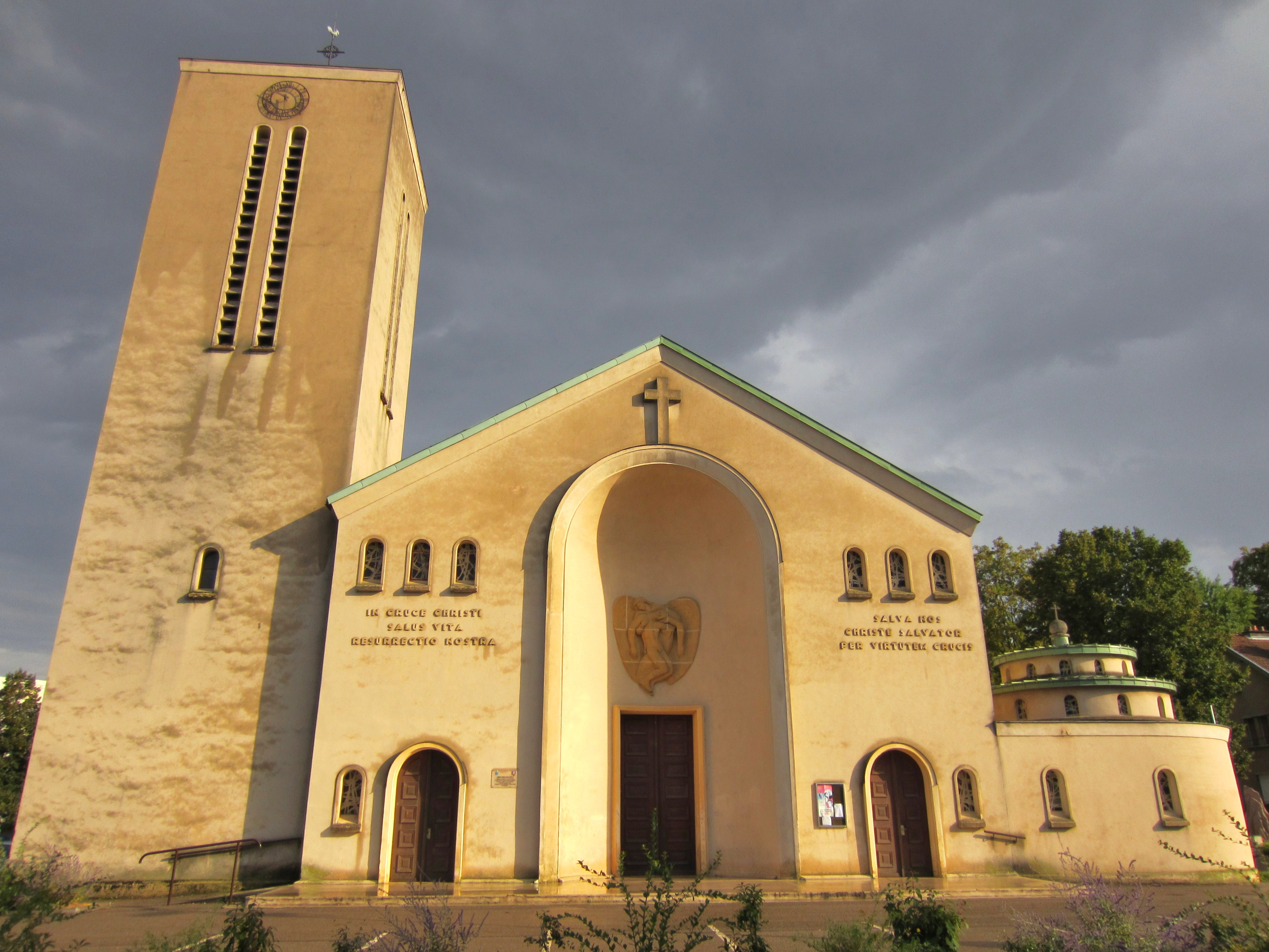 Description eglise sainte croix ban st martin Date3 September 2011Sourcemon appareil photoAuthorAimelaimePermission(Reusing this file) eglise sainte croix ban st martin